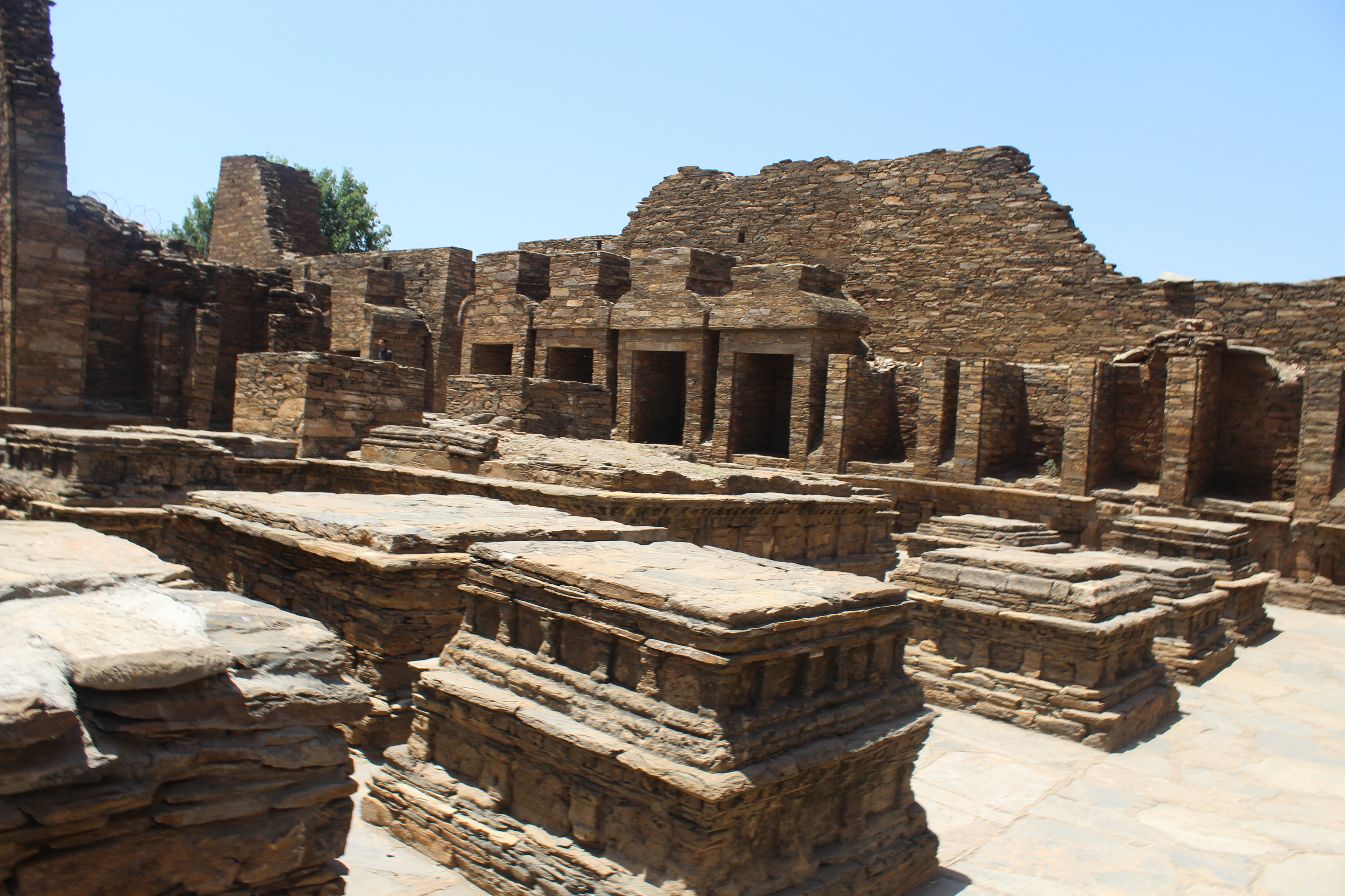 The ancient Buddhist site in Mardan with this photo showing an outdoor courtyard containing storage containers